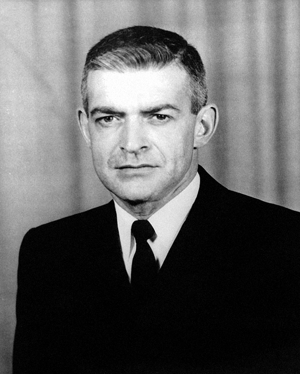 Photograph of Medal of Honor recipient Lieutenant Vincent R. Capodanno, USNR.